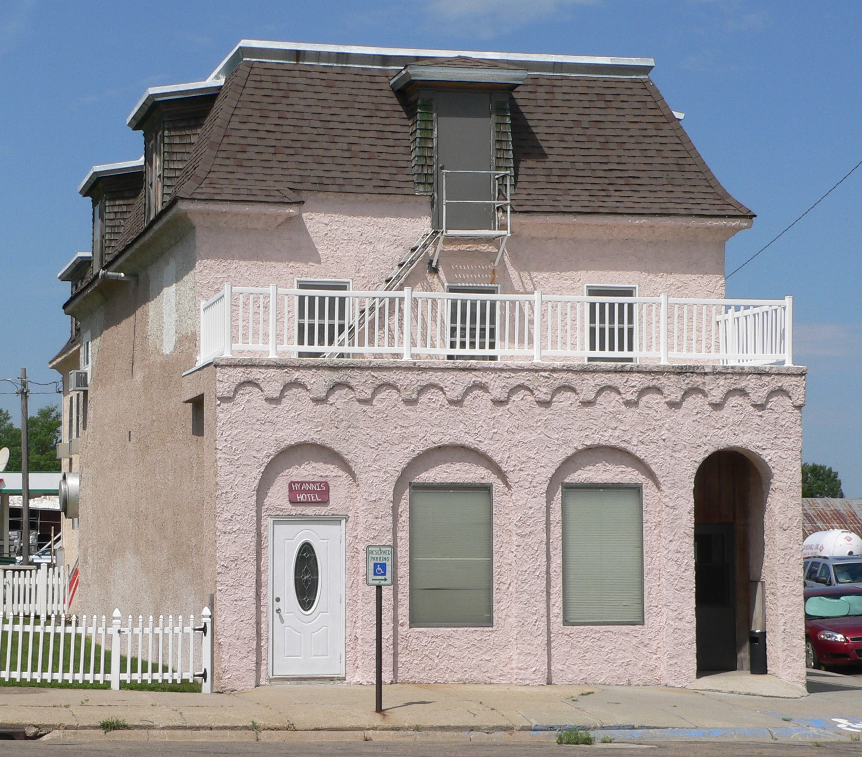 Hotel DeFair in Hyannis, Nebraska; seen from the southeast. The Second Empire building was constructed in 1898. It is listed in the National Register of Historic Places. It continues to operate as a hotel, restaurant, and bar under the names Double JT and Hyannis Hotel.